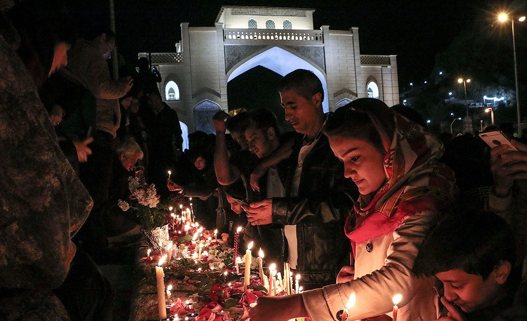 People in Shiraz turn on the candle for victims of 2019 Shiraz floods